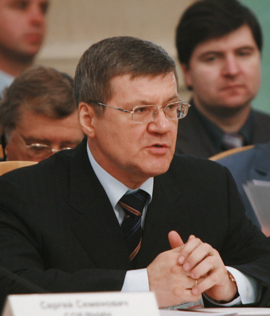 “The G8 Interior, Justice Ministers' and Attorney Generals' Meeting”. Russian Justice Minister Yury Chaika attending the G8 Interior, Justice Ministers' and Attorney Generals' Meeting.